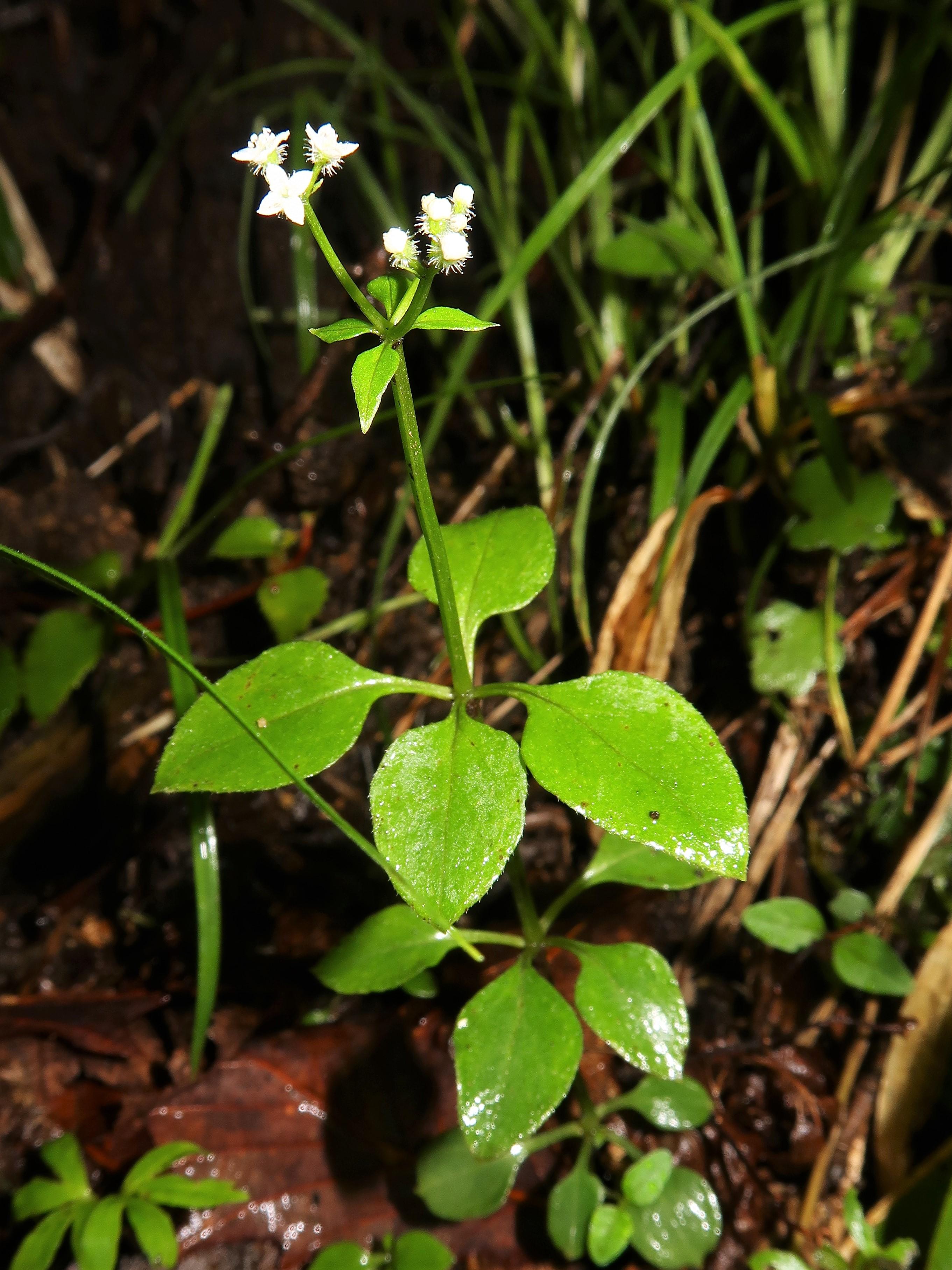 Galium paradoxum subsp. franchetianum, Nikko city, Tochigi pref., Japan